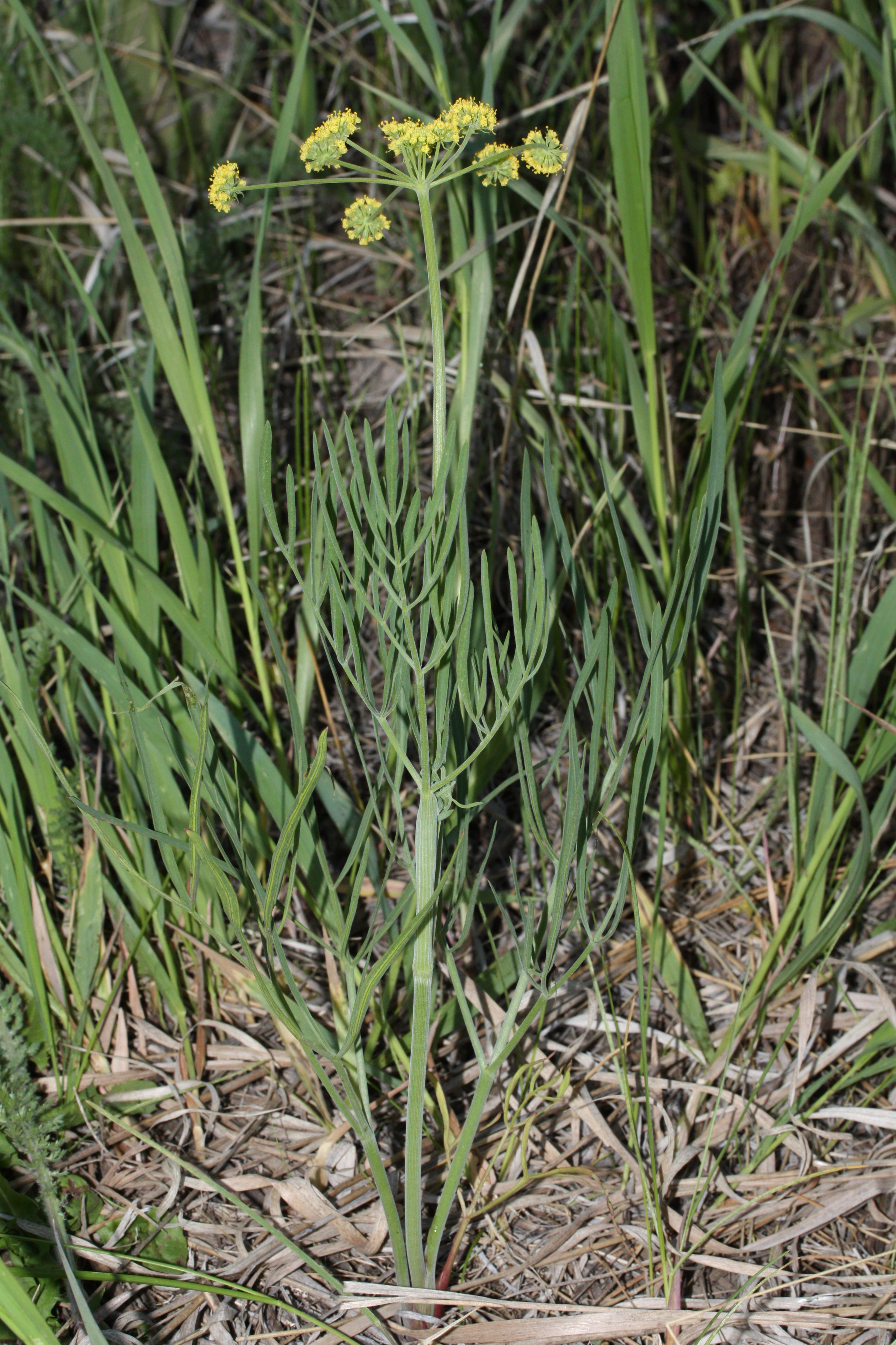 Nineleaf Biscuitroot